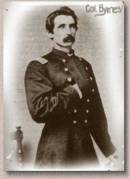 Original collodian photograph of Col. Richard Byrnes, circa 1862. Photographer unknown.